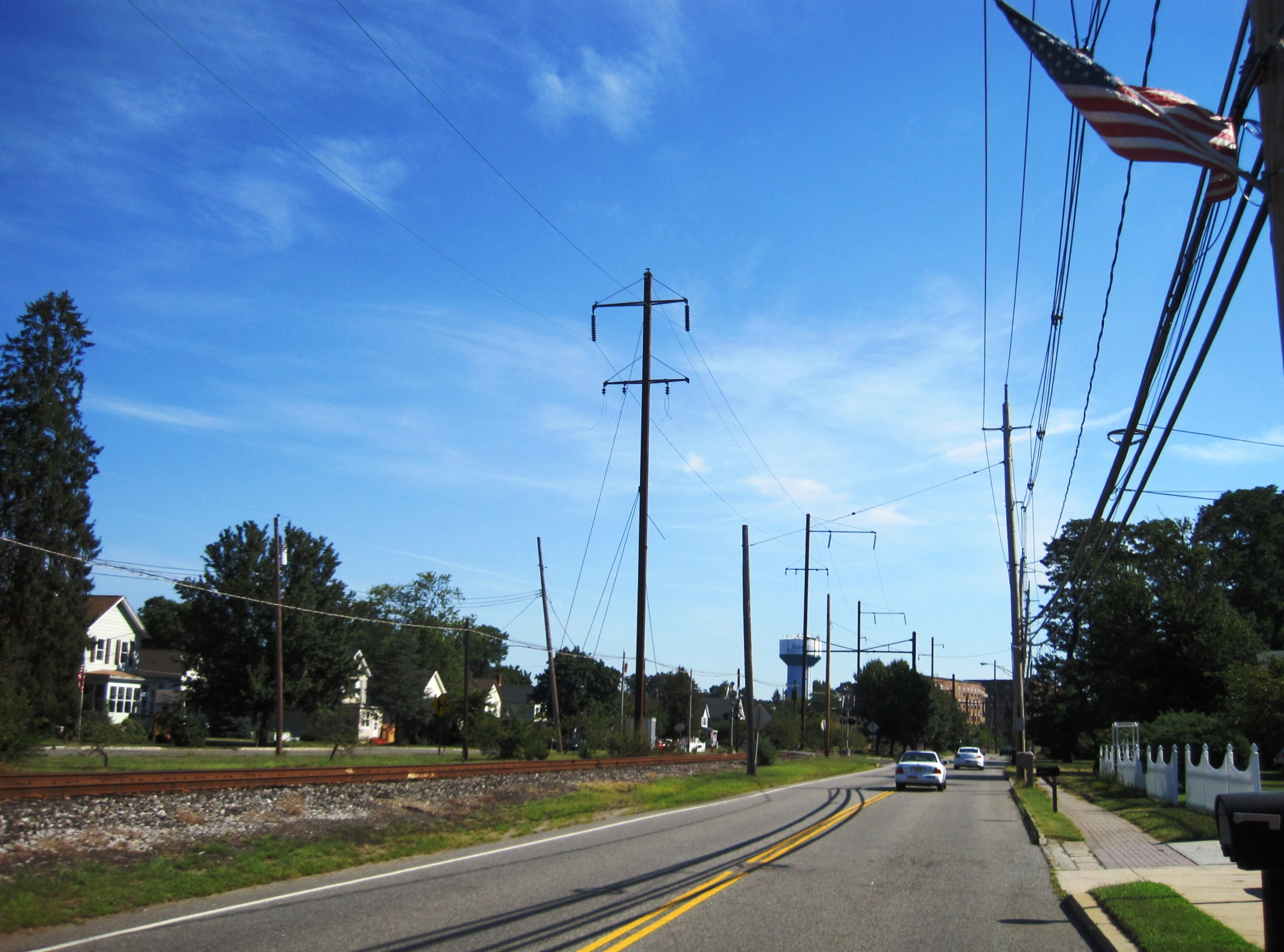 Photo of the center of Helmetta, New Jersey. Photo taken along northbound Main Street (County Route 615) approaching Willow Street. The Camden and Amboy Railroad, formerly electrified as a part of the PRR Jamesburg Branch, is on the left.